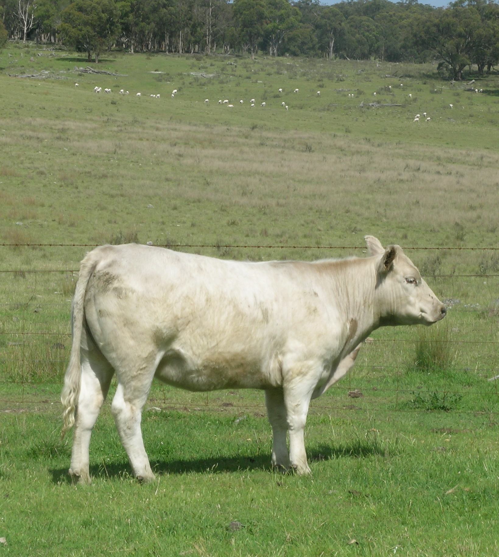 Murray Grey heifer with freshly shorn sheep in the backgound, Walcha, NSW